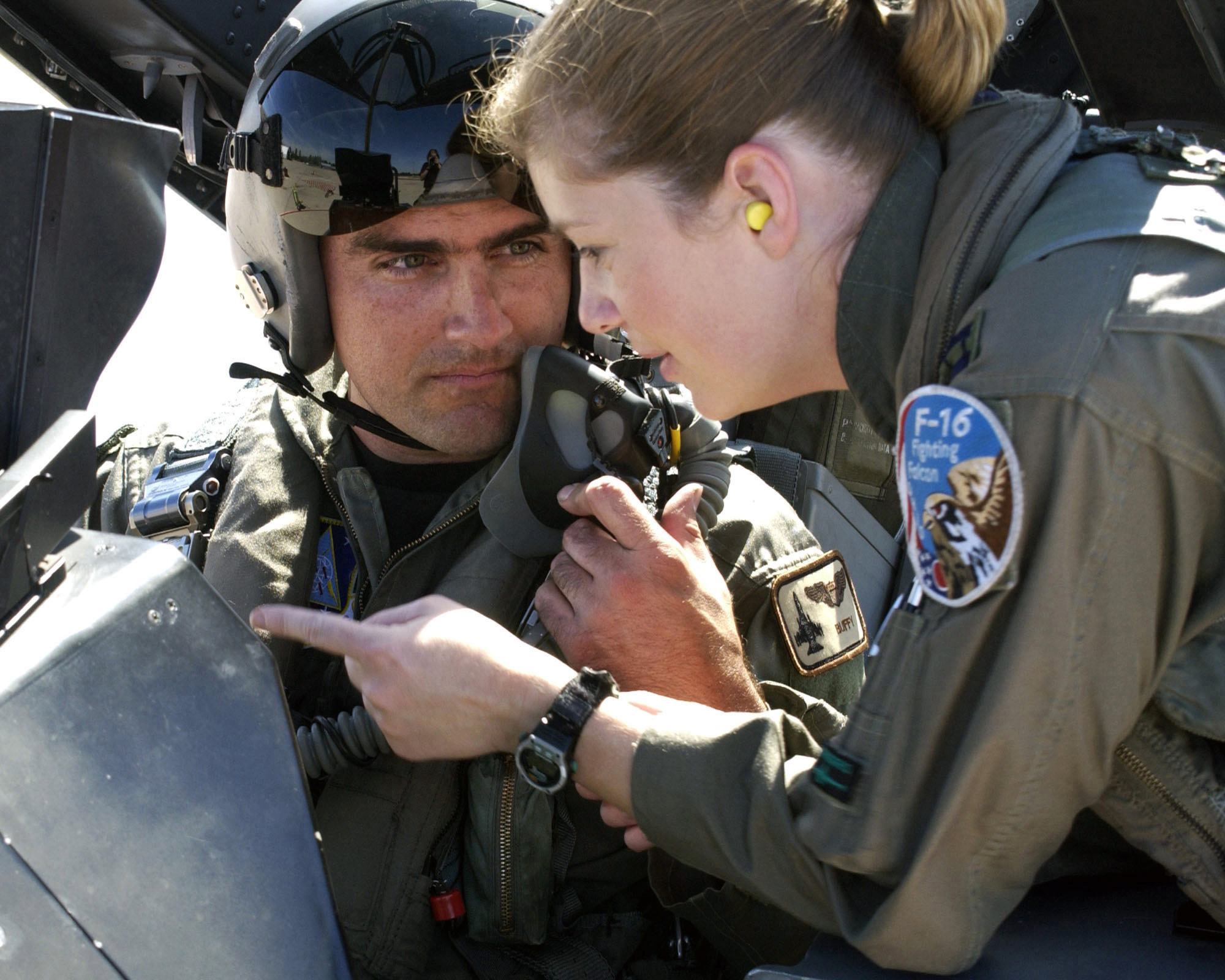 Ohio Air National Guard (OHANG) Capt. Becky "Buffy" Ohm, Pilot, 180th Fighter Wing, Toledo, OH, gives OHANG Technical Sergeant Keith "Load" Holliker, Crew Chief, his final briefing before his incentive flight on board an OHANG F-16D Fighting Falcon fighter on Sept. 21, 2004. The OHANG 180th Fighter Wing has one F-16 D Model that is reserved for incentive flights two days a week. Incentive flights are given to outstanding airmen, award winners, VIPs, and retirees. (USAF photo by Staff Sergeant Beth Slater) (Released)